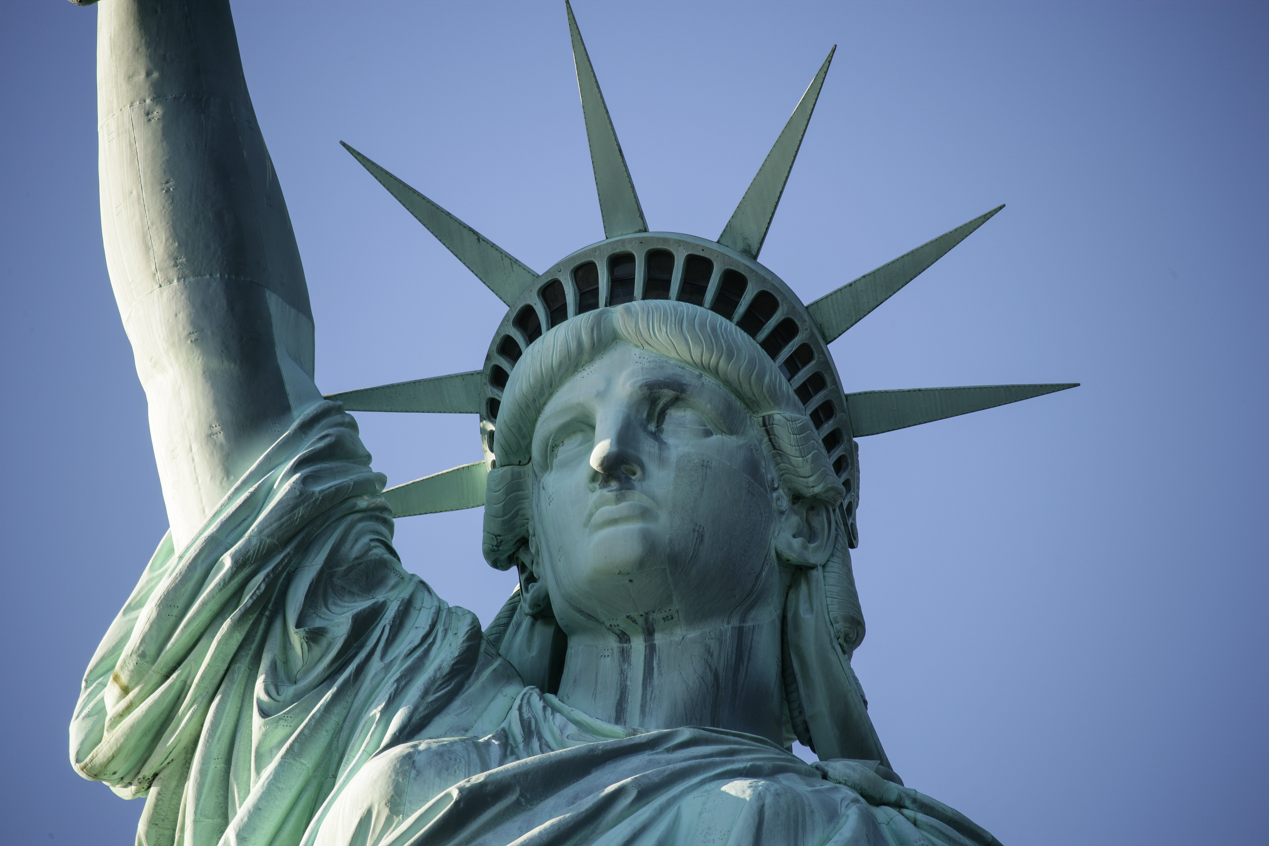 Erik Lindgren 2015